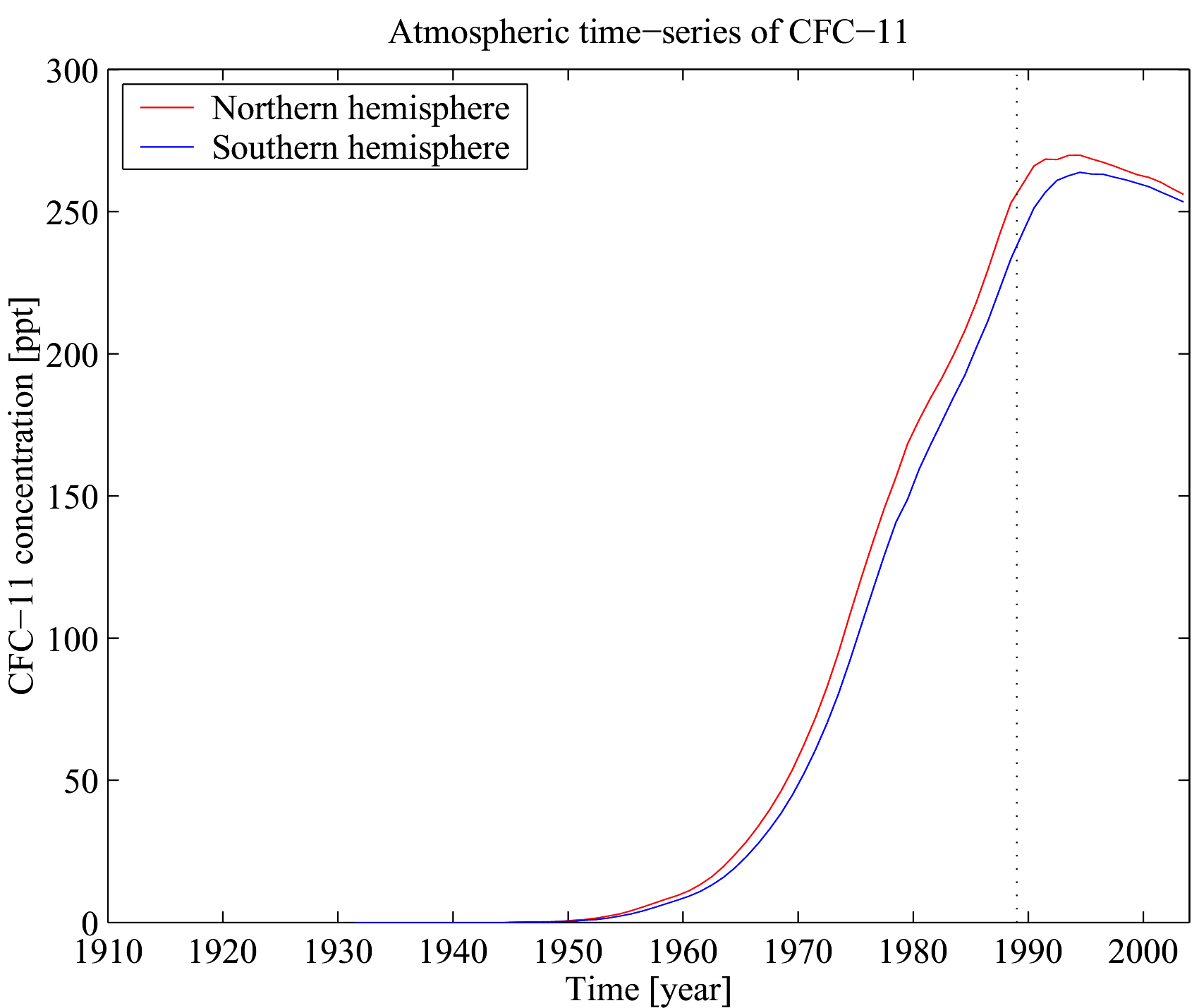 Time series of atmospheric concentrations of CFC-11 from 1931 to 2003. Mixing ratio concentrations are shown for the northern and southern hemispheres, and are expressed as parts per trillion. The dotted line at 1989 incidates the time at which the Montreal Protocol on Substances That Deplete the Ozone Layer came into force. The data are plotted here using MATLAB. The published source of data for the figure is: Walker, S. J., R. F. Weiss & P. K. Salameh (2000) Reconstructed histories of the annual mean atmospheric mole fractions for the halocarbons CFC-11, CFC-12, CFC-113 and carbon tetrachloride. Journal of Geophysical Research 105, 14285—14296. The data (including error estimates and updates) are available online from the atmospheric halocarbon page at University of California, San Diego.